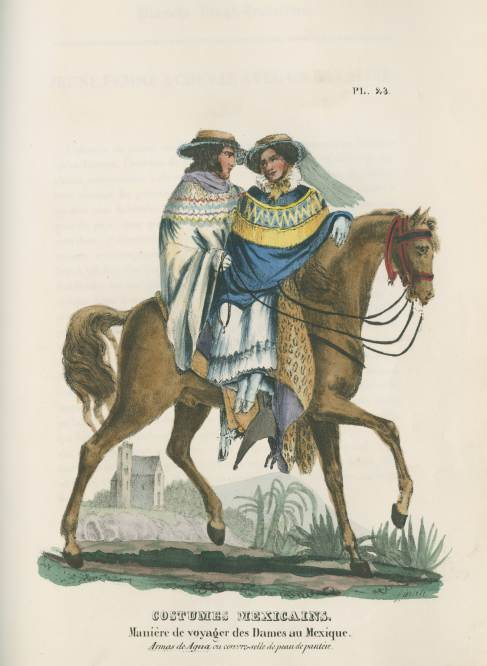 Maniėre de voyager des Dames au Mexique from the book Costumes civils, militaires et réligieux du Mexique (Belgium, 1828)